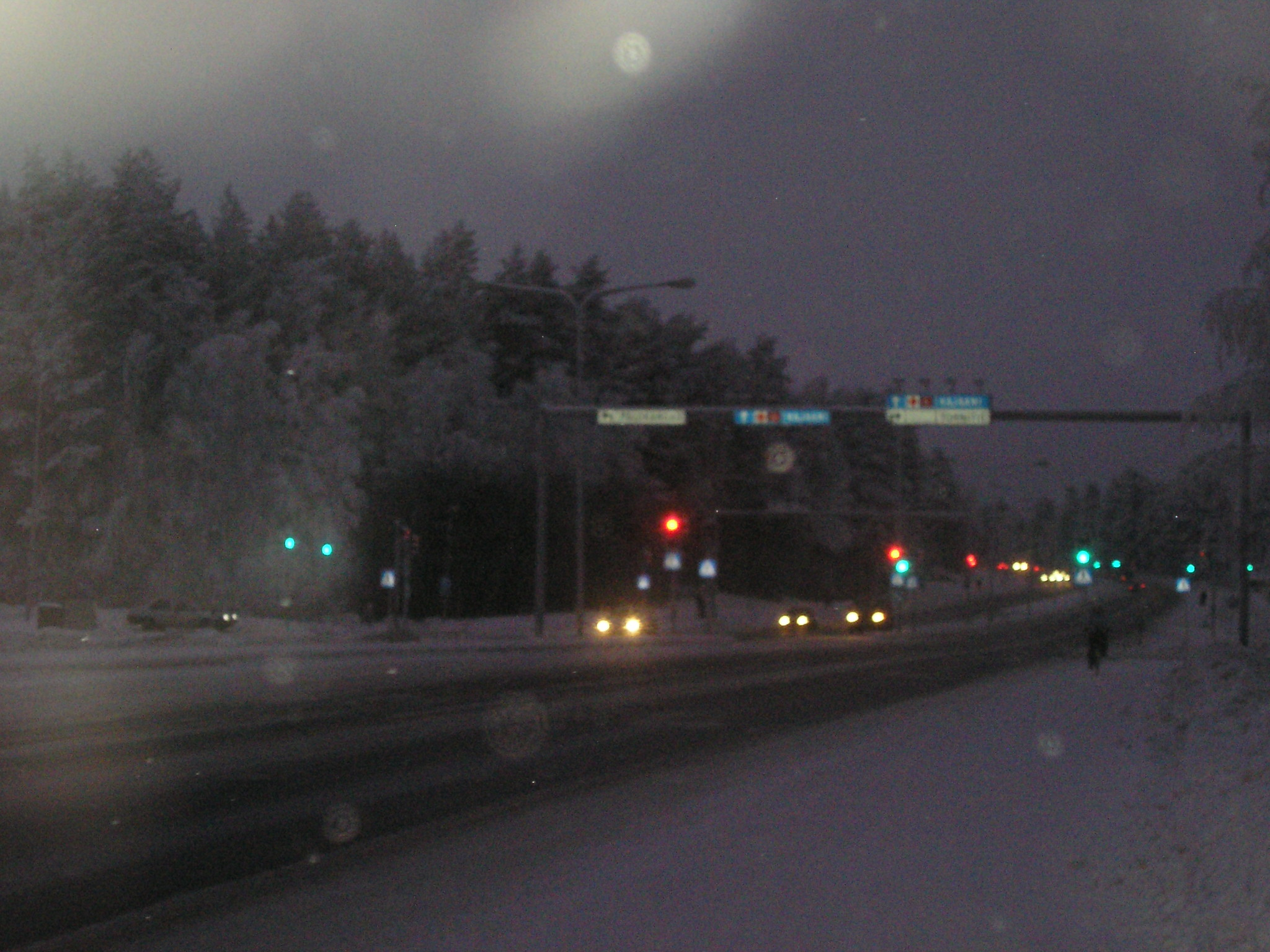 Highway 6 in Kajaani, Finland by evening